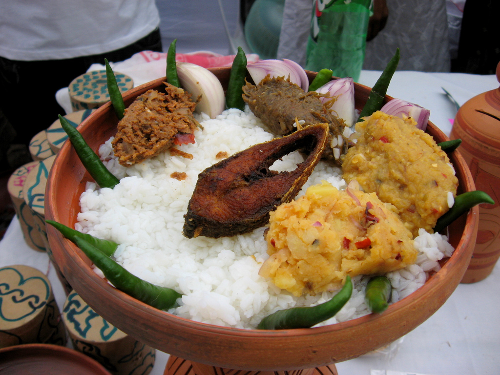 Panta Ilish - a traditional platter of Panta bhat with fried Ilish slice, supplemented with dried fish (Shutki), pickles (Achar), dal, green chillies and onion - is a popular serving for the Pohela Boishakh festival. Mohakhali, Dhaka, Bangladesh